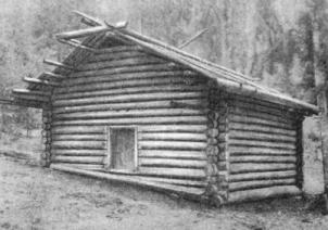 Great Kuala (sanctuary of the Udmurts) near the village Kuzebayevo of the modern Alnashsky District, Russia